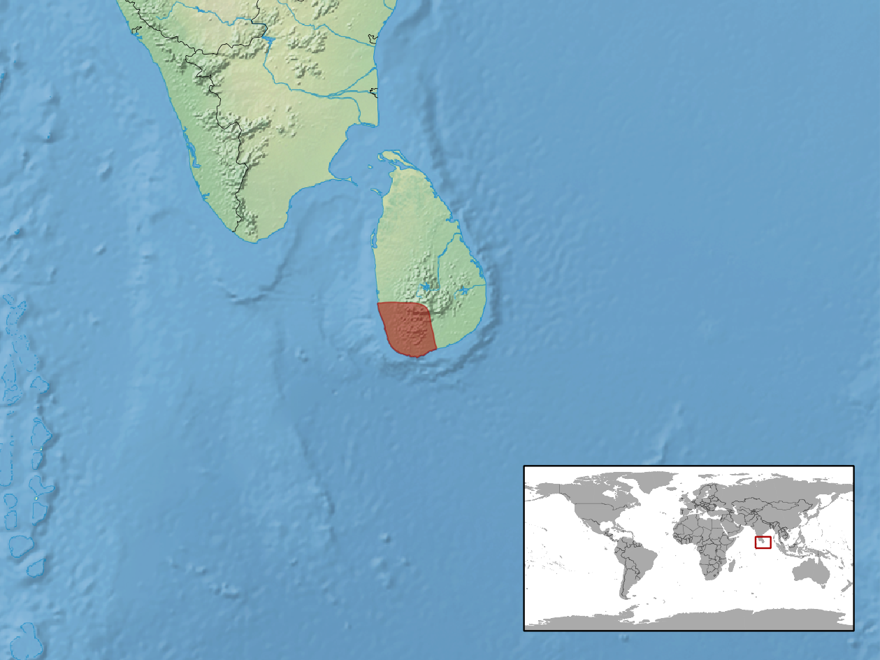 geographic distribution of Ceratophora aspera (Native: Sri Lanka)